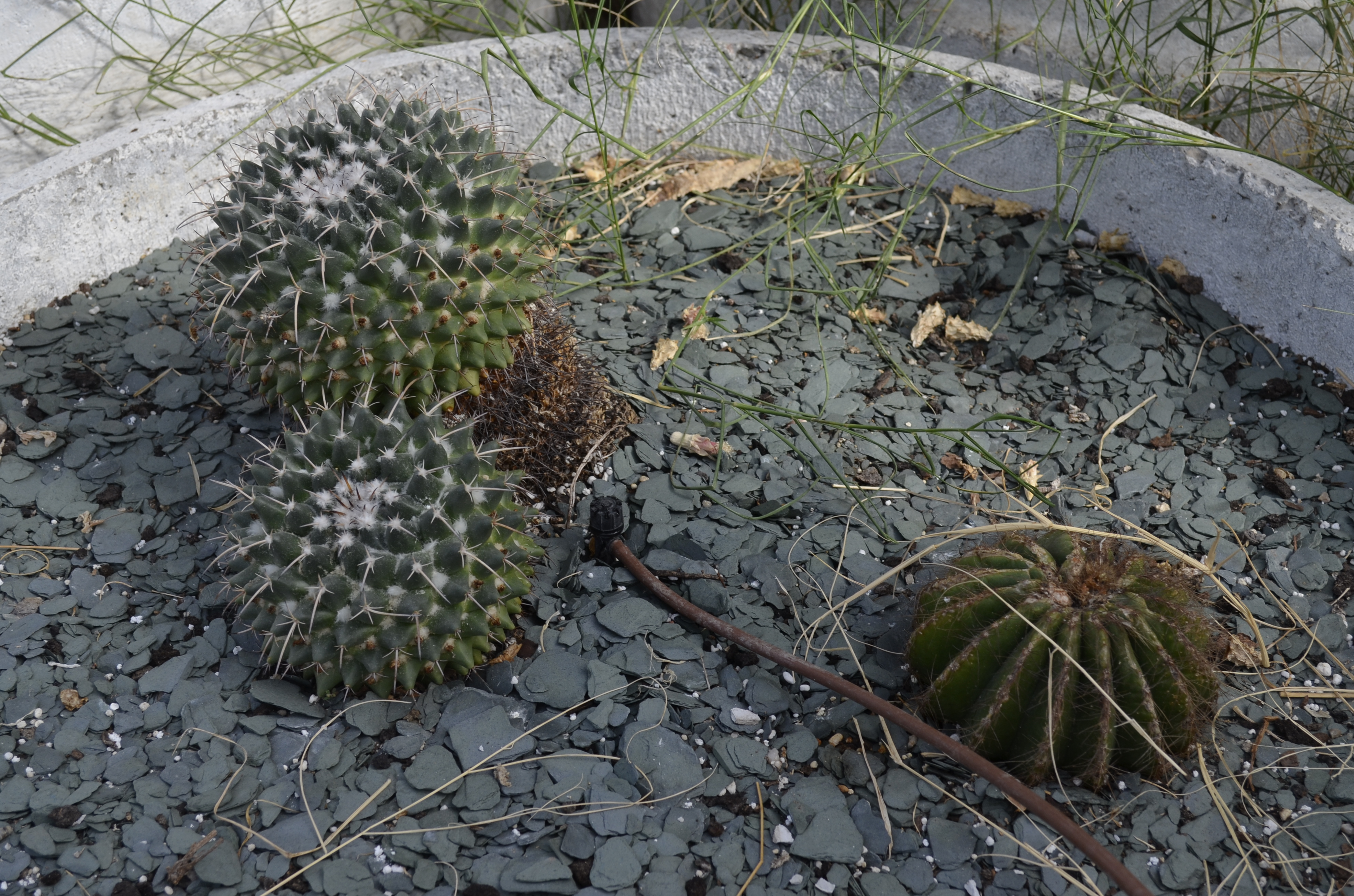 Mammillaria sartorii & Parodia magnifica